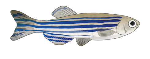 zebrafish